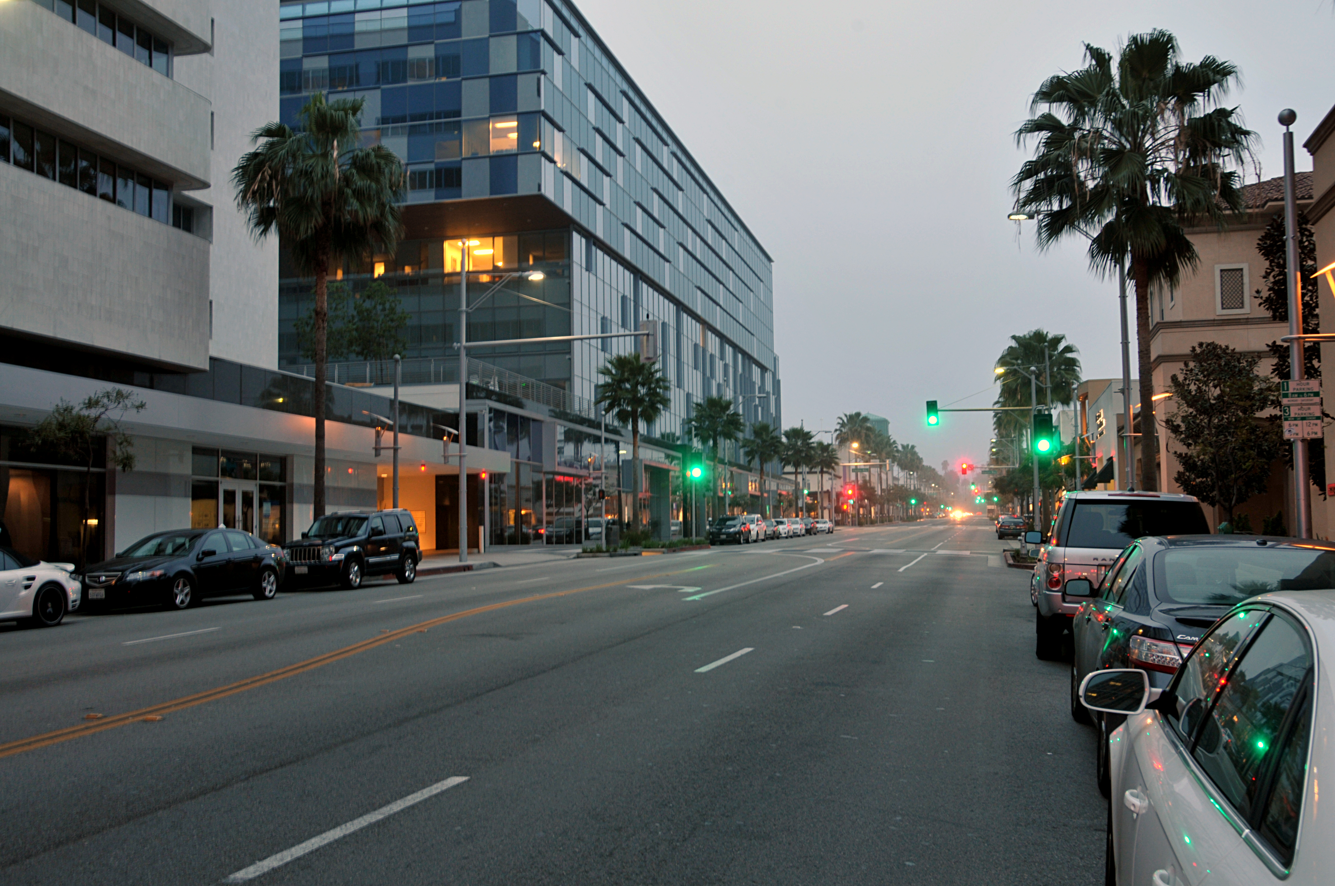 Beverly Drive looking North from Wilshire Blvd., Beverly Hills, California - Photoby Glenn Francis of